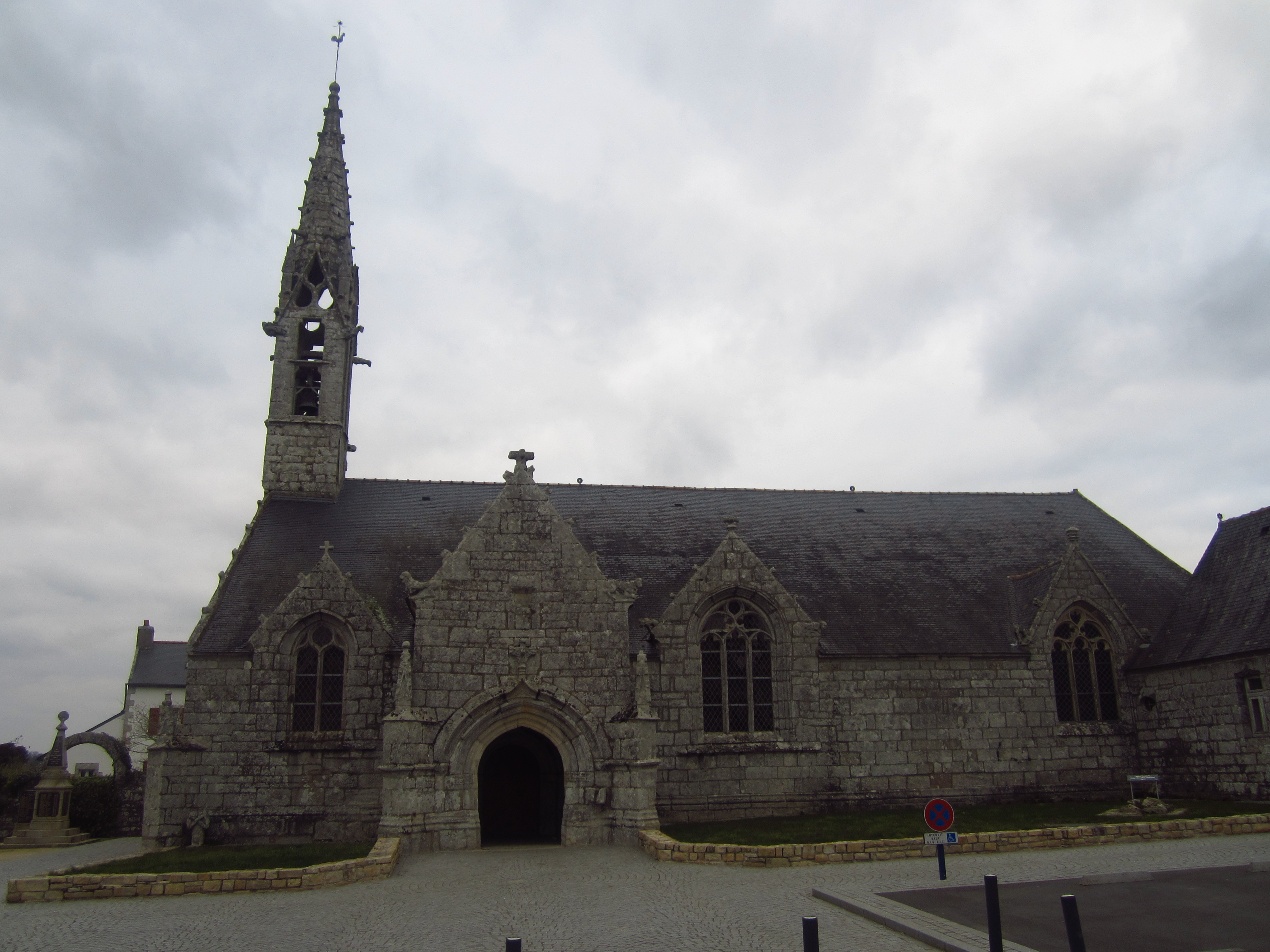 Church of Saint-Évarzec, Finistère